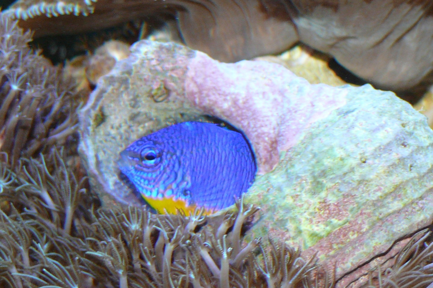 Chrysiptera hemicyanea with its spawn in a gastropod shell